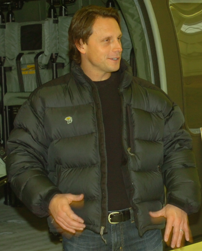 Joe Randa (left) visiting Marshall Army Airfield in 2010